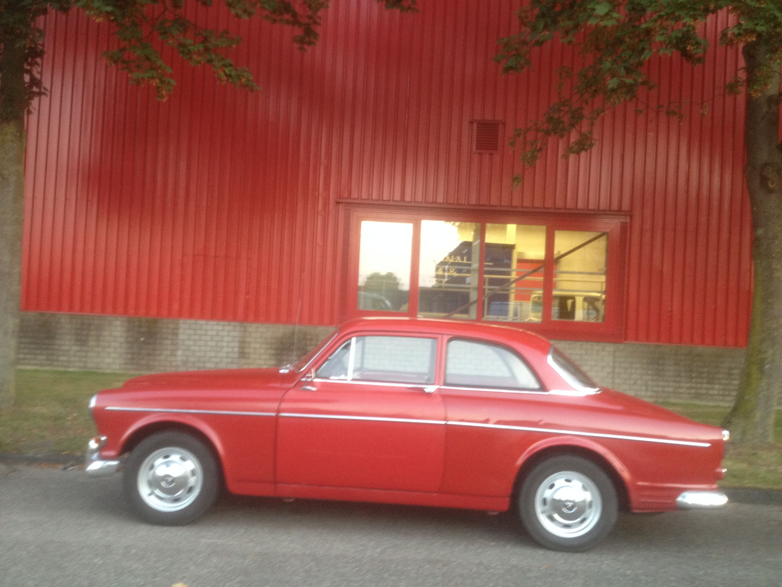 Red Volvo old-timer parked outside Nationale Opera en Ballet of Netherlands in Amsterdam-Zuidoost